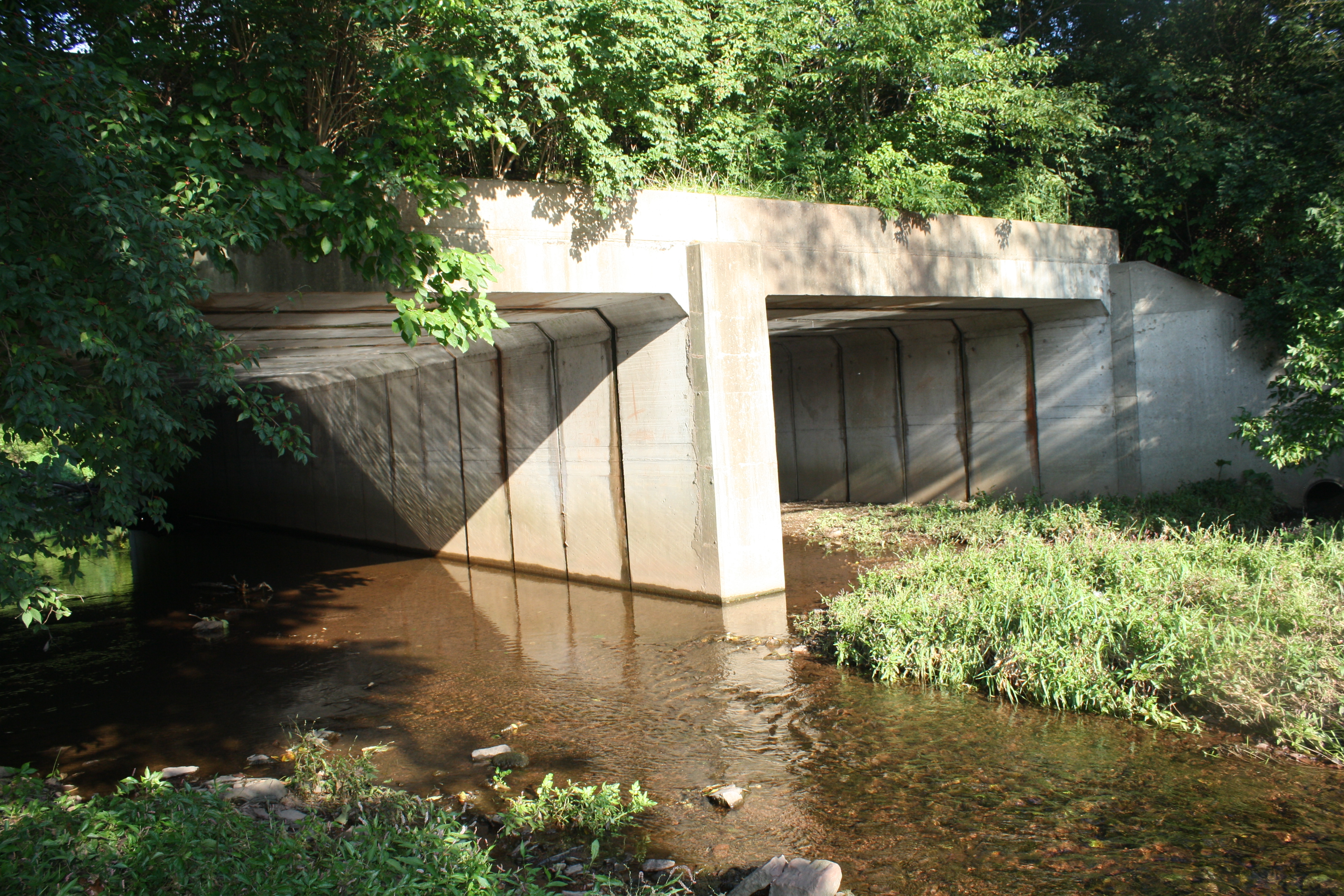 Bridge in Franconia Township Bridge in Franconia Township is a historic stone arch bridge located at Elvoy in Franconia Township, Montgomery County, Pennsylvania. The bridge was built in 1837 and reconstructed in 1874.